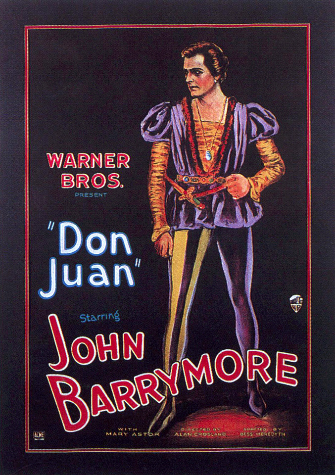 Low-resolution image of poster for the movie Don Juan (1926), featuring star John Barrymore.